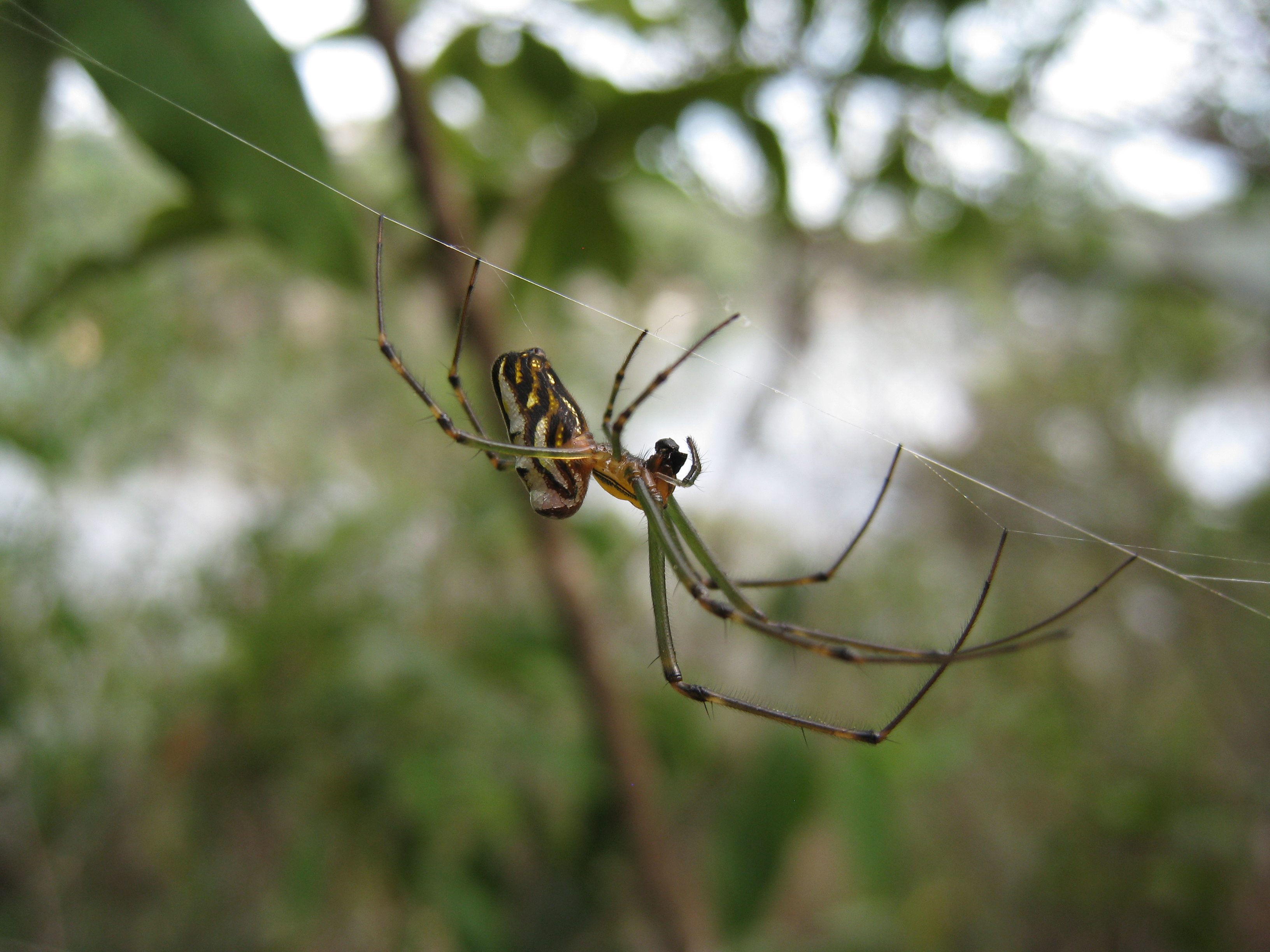 Looking a bit like she could have been a zebra in a former life, Leucauge granulata. Paruna Reserve, Como NSW Australia, January 2011.